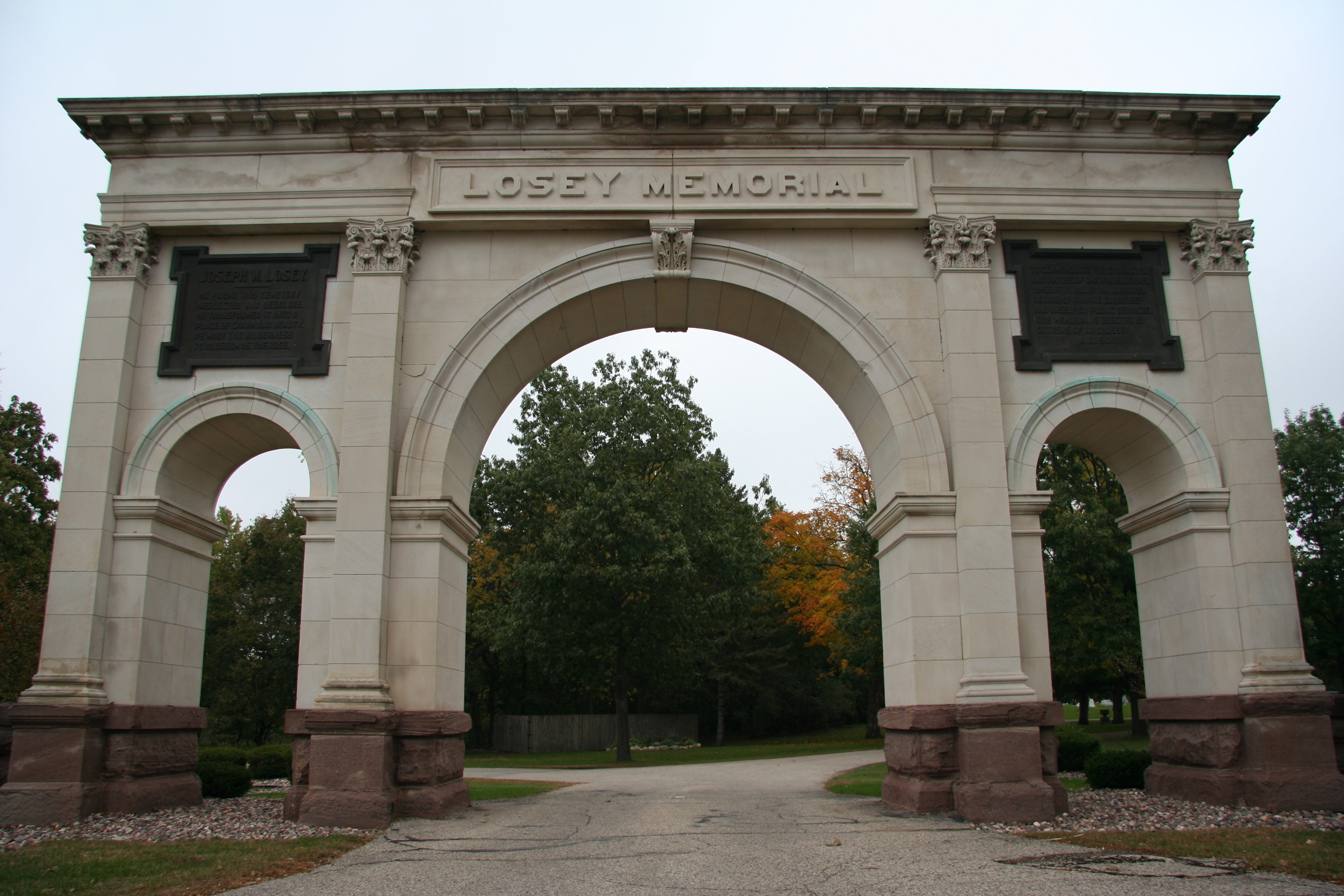 Losey Memorial Arch over the main entrance to Oak Grove Cemetery, 1407 La Crosse Street, La Crosse, Wisconsin